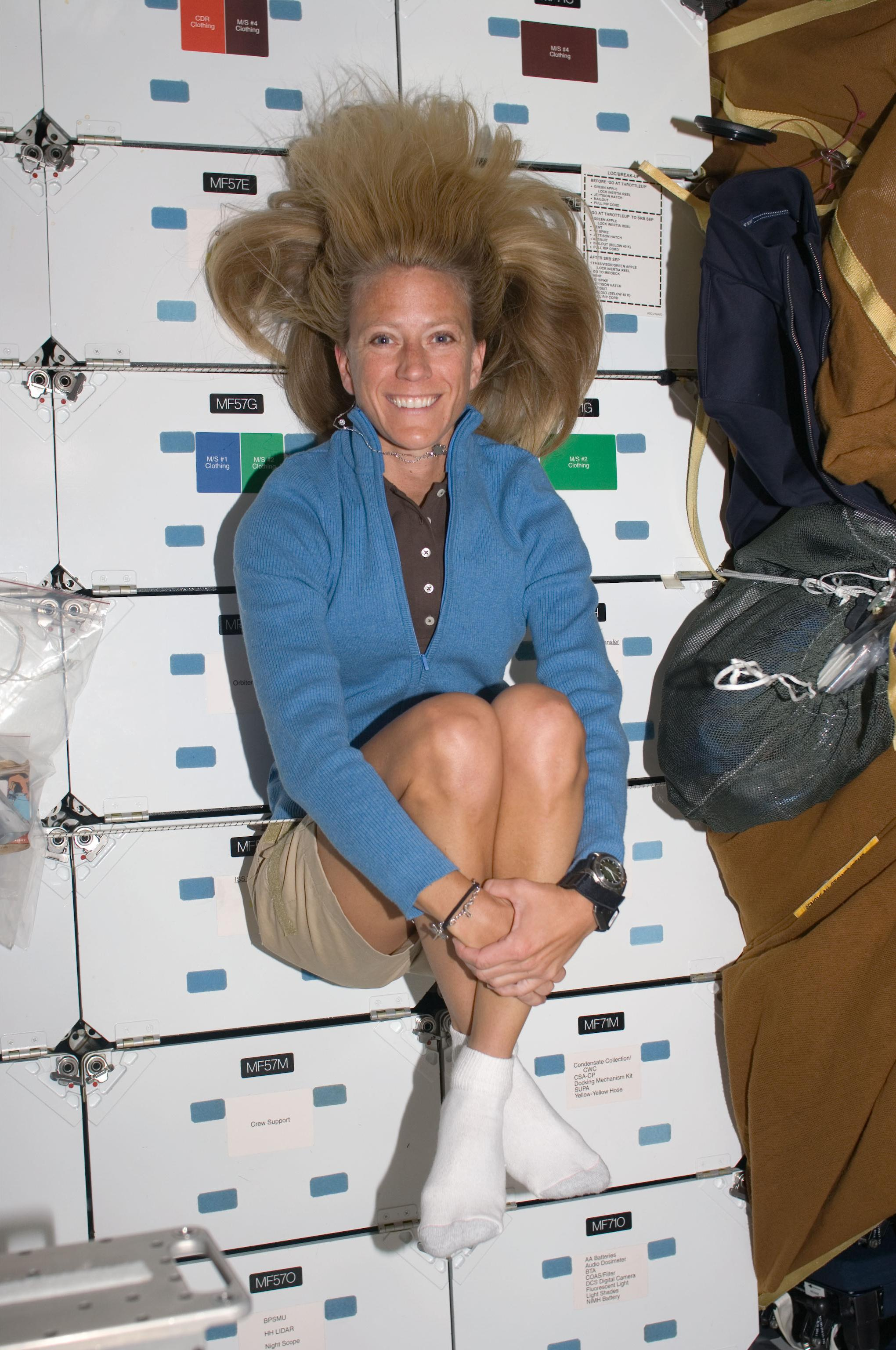 STS-124 Shuttle Mission ImageryS124-E-007134 (7 June 2008) --- Astronaut Karen Nyberg, STS-124 mission specialist, smiles for a photo as she floats on the middeck of the Space Shuttle Discovery while docked with the International Space Station.